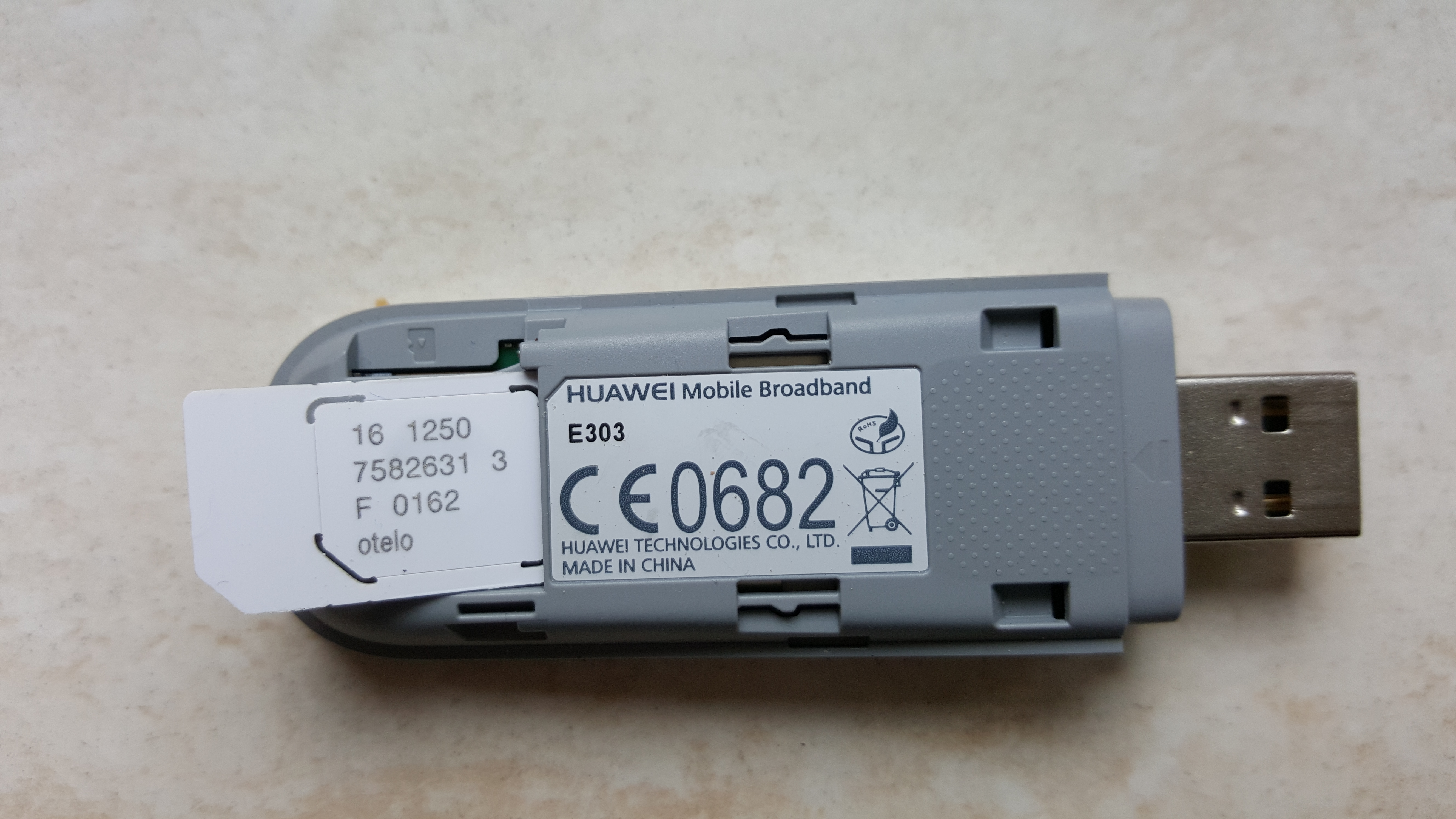 Huawei internet stick with SIM card (otelo), rear view